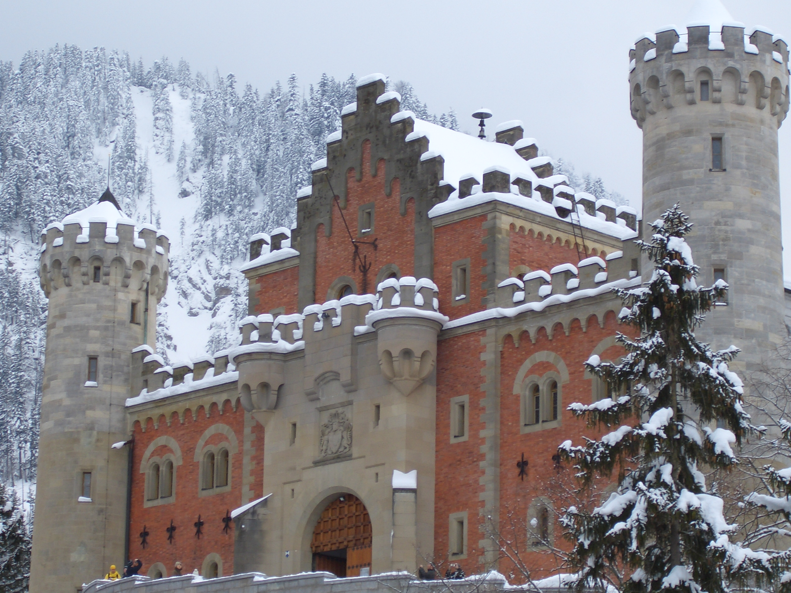 Neuschwanstein Castle, Bavaria, Germany